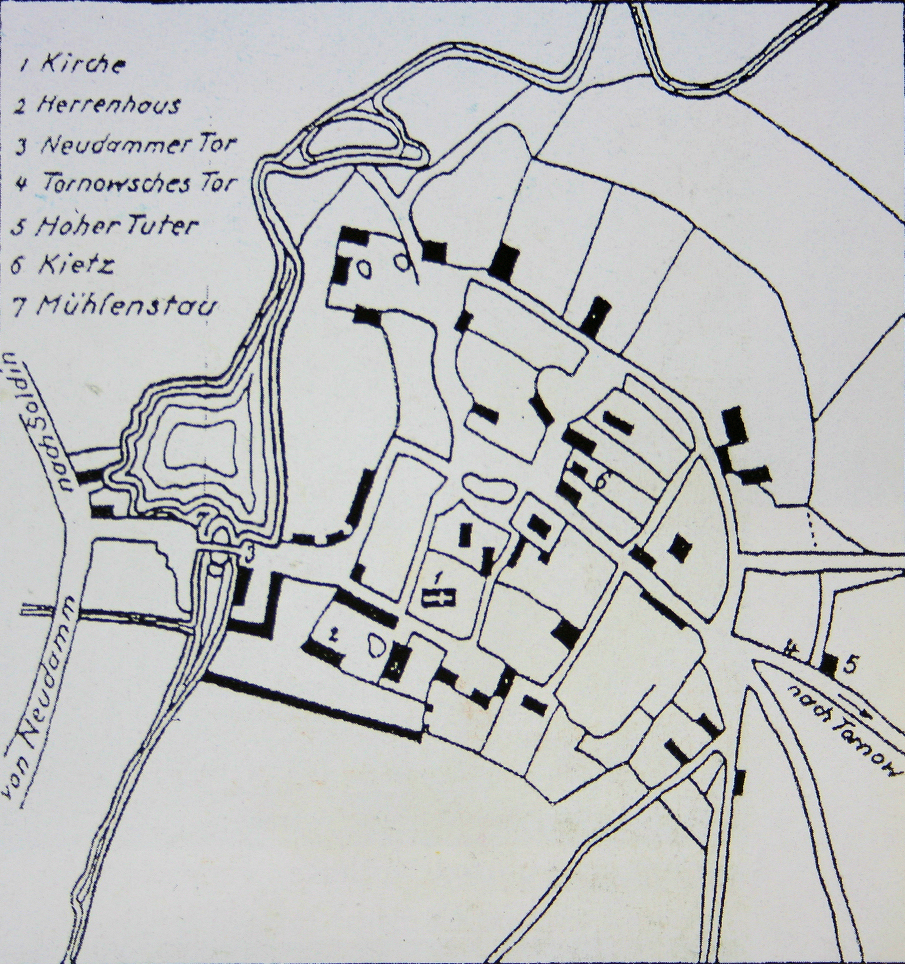 Map of Barnówko (Berneuchen) in 15th century